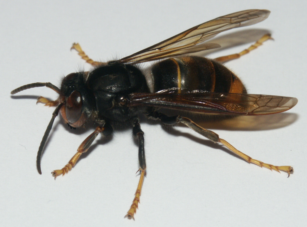 Vespa velutina caught in a garden in Floirac (Gironde, France)